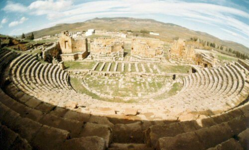 Description= Roman Theatre, Khamissa (Algeria) photo token by M.GASMI 2005. Source= Own photograph by uploader. Author= M.GASMI.